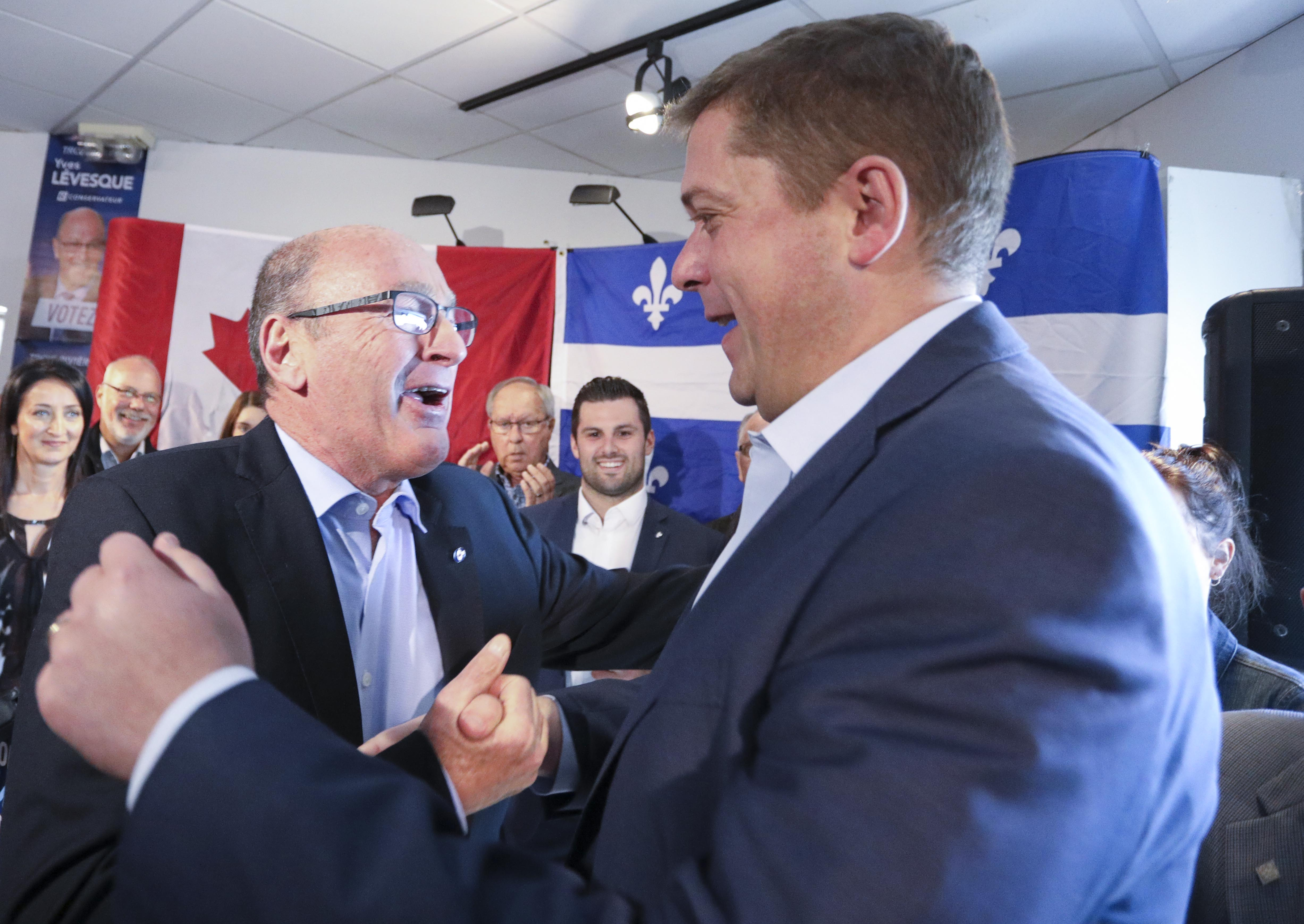 Stopped by Yves Levésques’ campaign office yesterday in Trois-Rivières. He was joined by Josée Bélanger and Bruno-Pier Courchesne. We’re all working to help you get ahead!